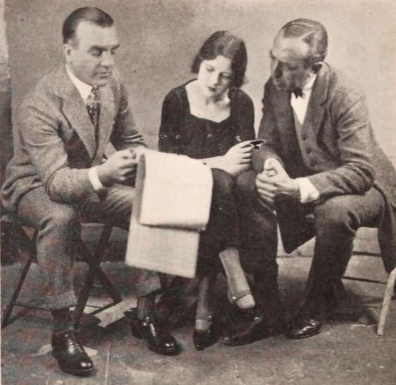 Still from the American drama film A Private Scandal (1921) with author Hector Turnbull going over the script with May McAvoy, and director Chester Franklin, on page 87 of the June 25, 1921 Exhibitors Herald.